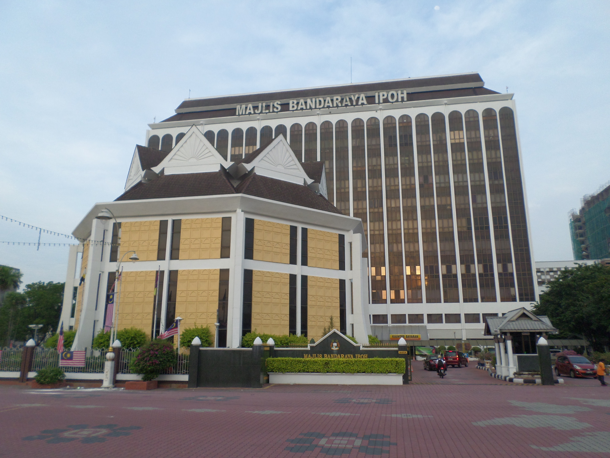 Ipoh City Council, Ipoh, Kinta, Perak, Malaysia